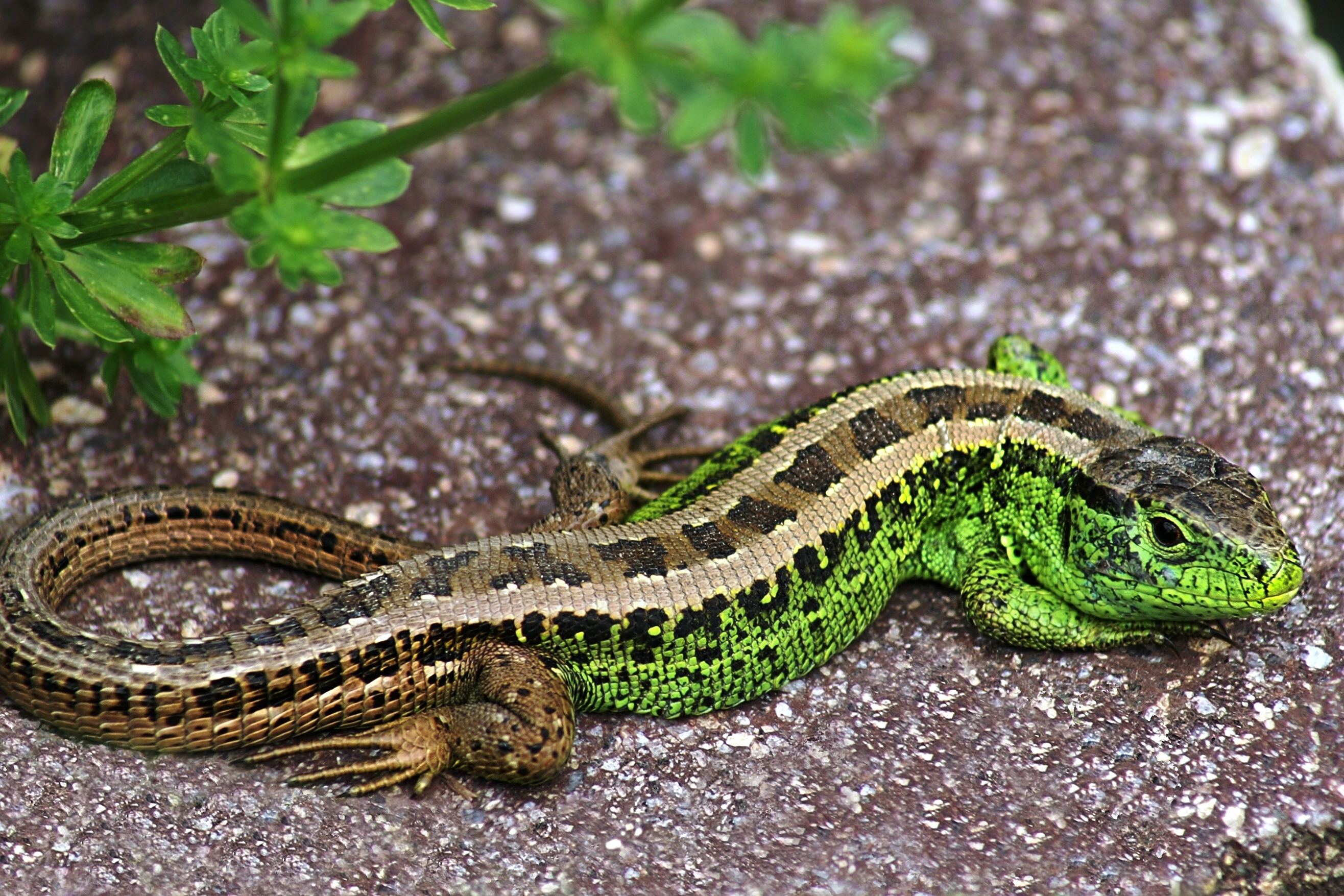 The Sand Lizard (Lacerta agilis) is a lizard.